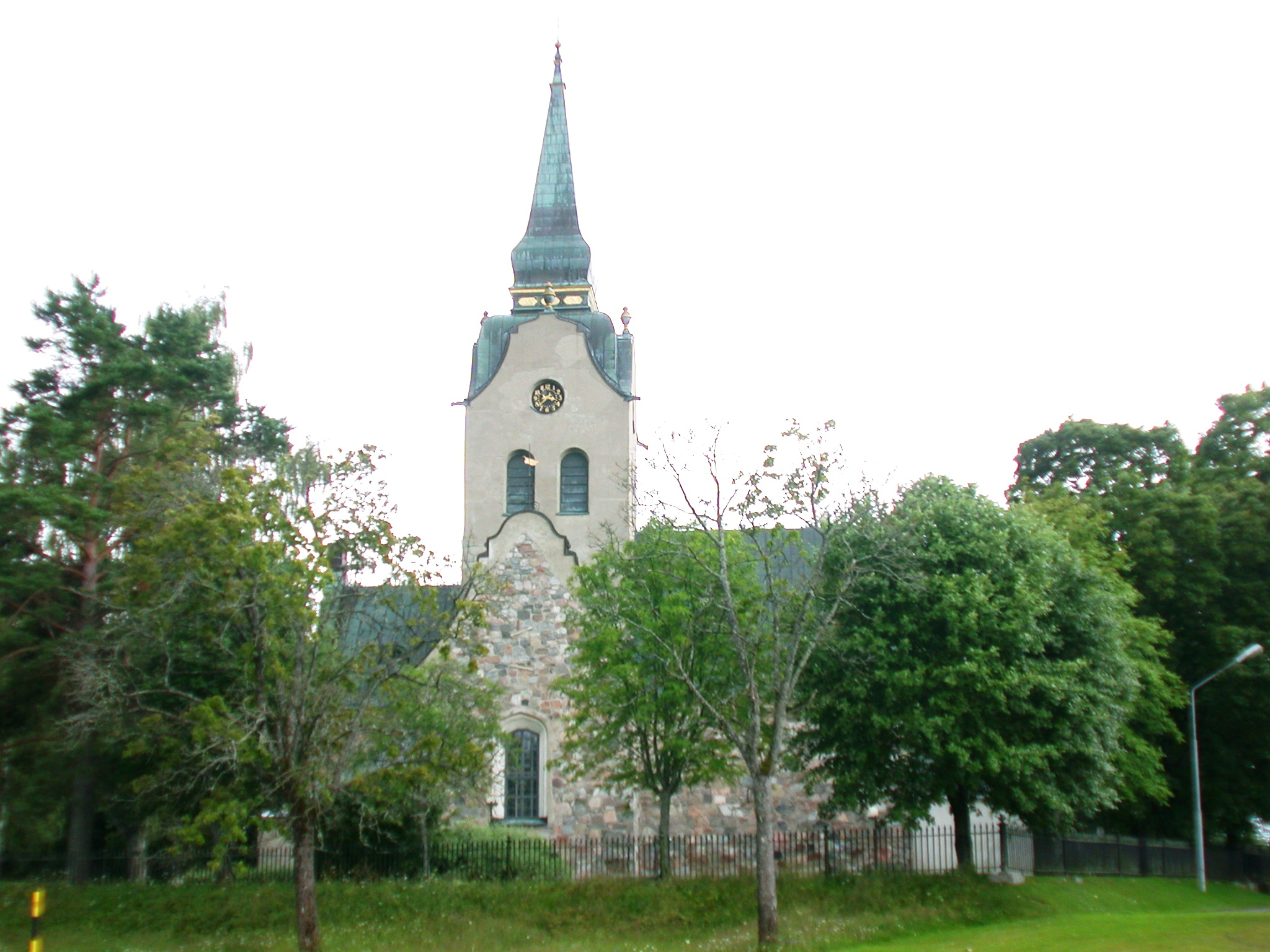 Church of Söderala, Söderhamn, Sweden